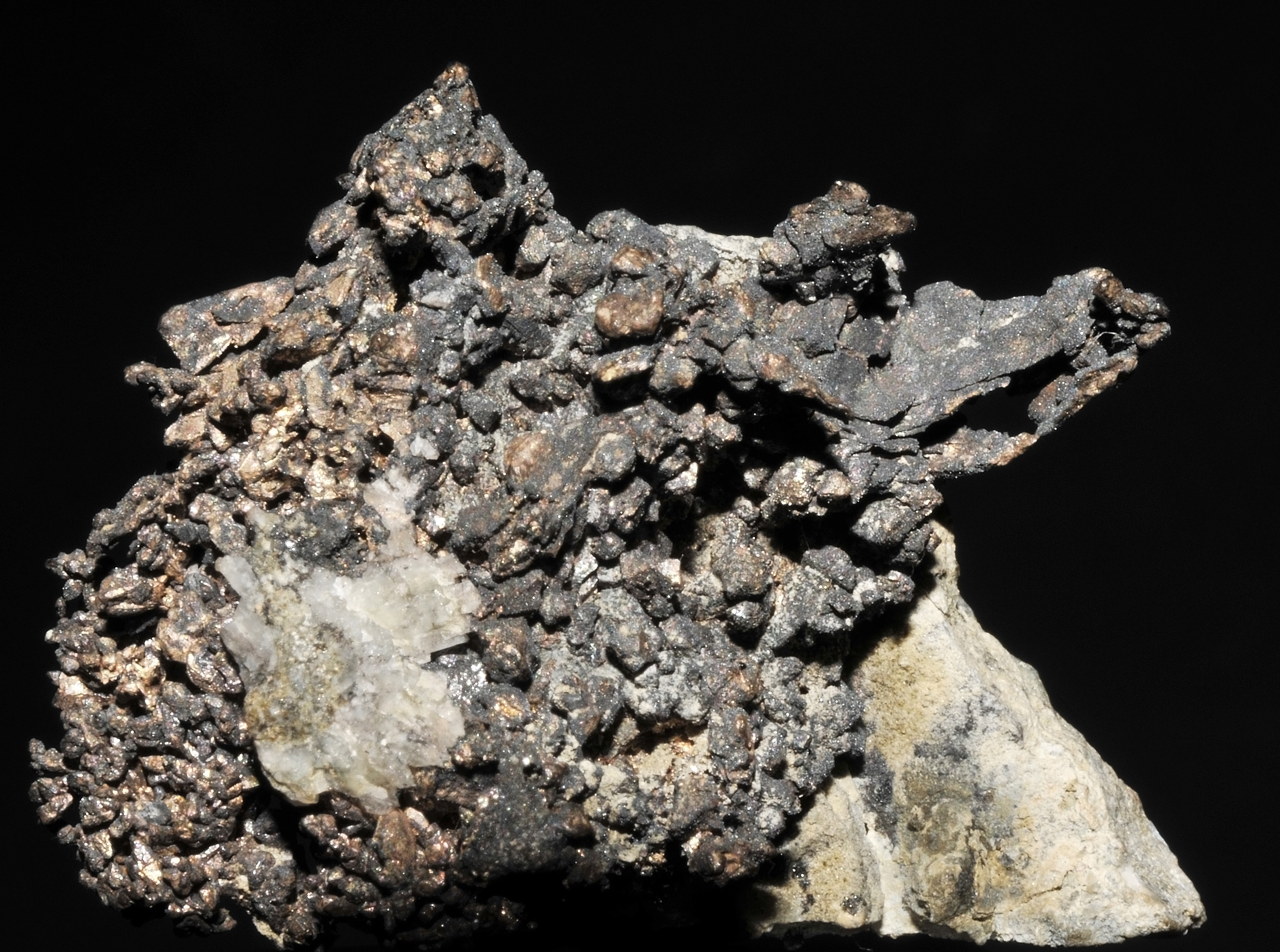 silver : Imiter Mine, Imiter District, Djebel Saghro (Jbel Saghro), Ouarzazate Province, Souss-Massa-Draâ Region, Morocco